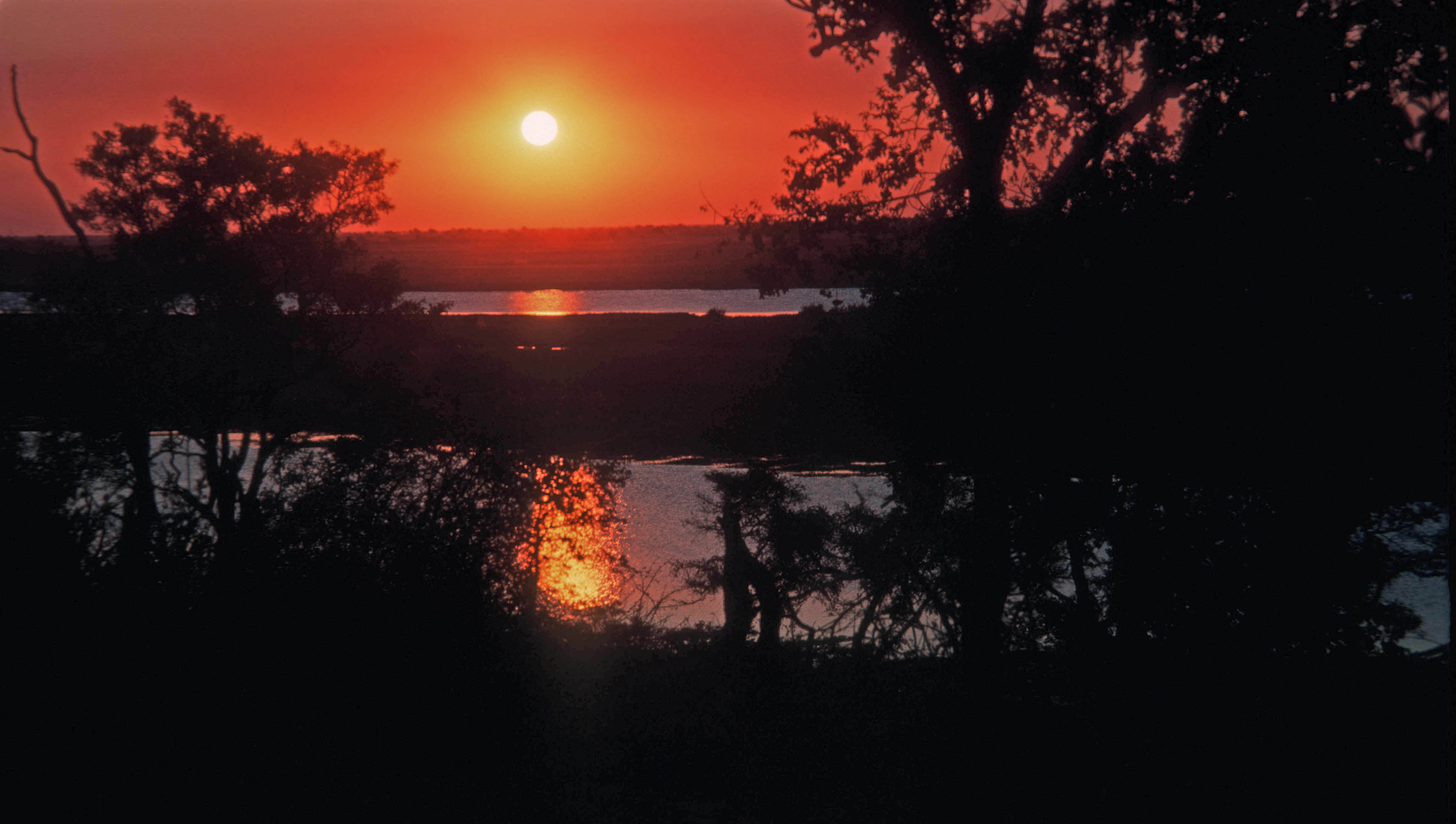 PHOTOGRAPHED IN CHOBE NATIONAL PARK IN BOTSWANA